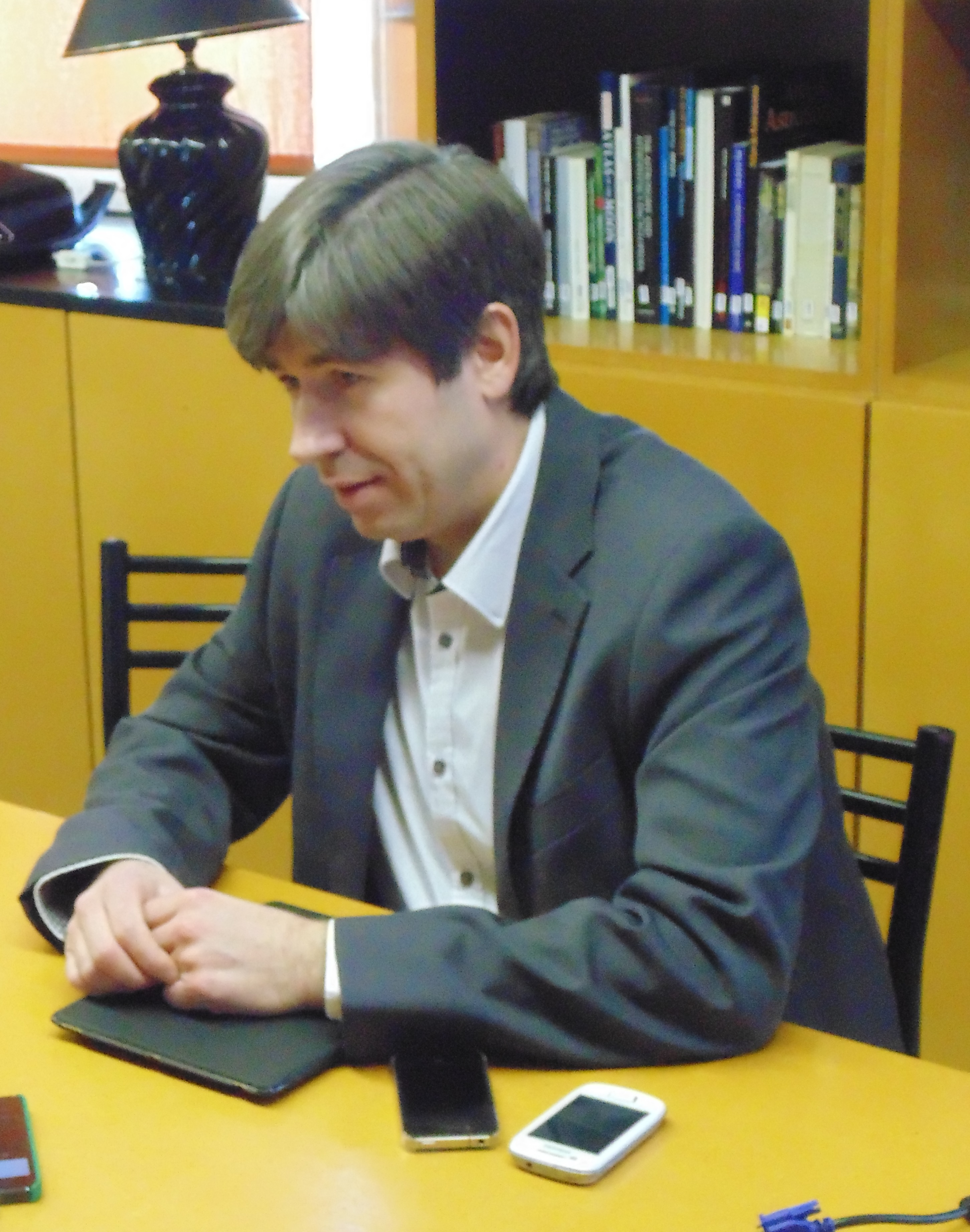 The president of the Agrupació Astronòmica de Sabadell, Xavier Puig.